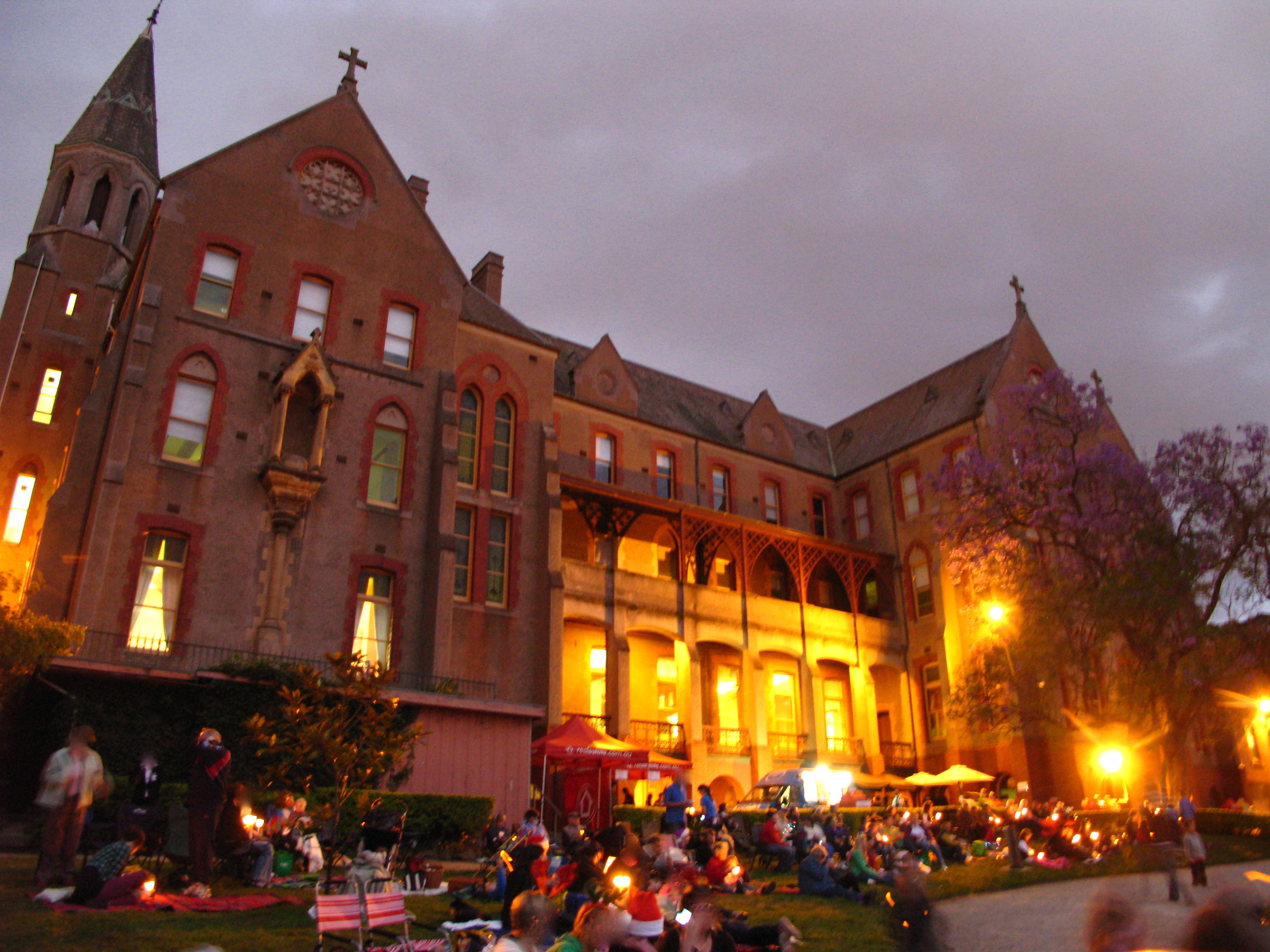 Carols at the Abbotsford Convent, 2009, looking back at top level of crowd towards west-northwest. Photo taken by Nick carson in December 2009.